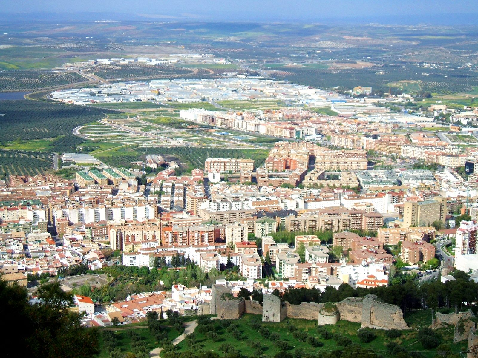 Vista aérea de Jaén desde el Castillo de Santa Catalina.